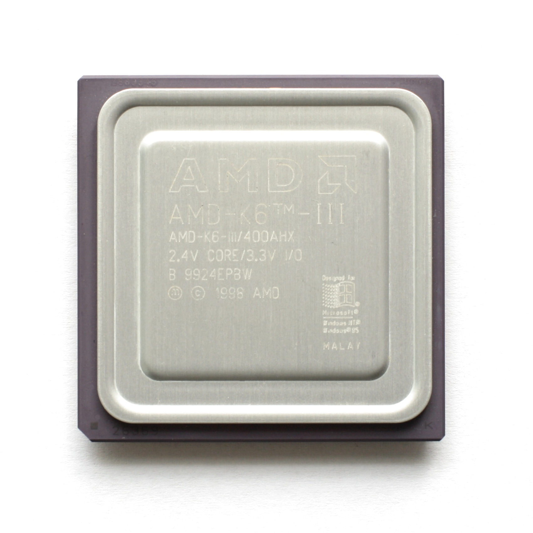 x86-CPU AMD K6-III